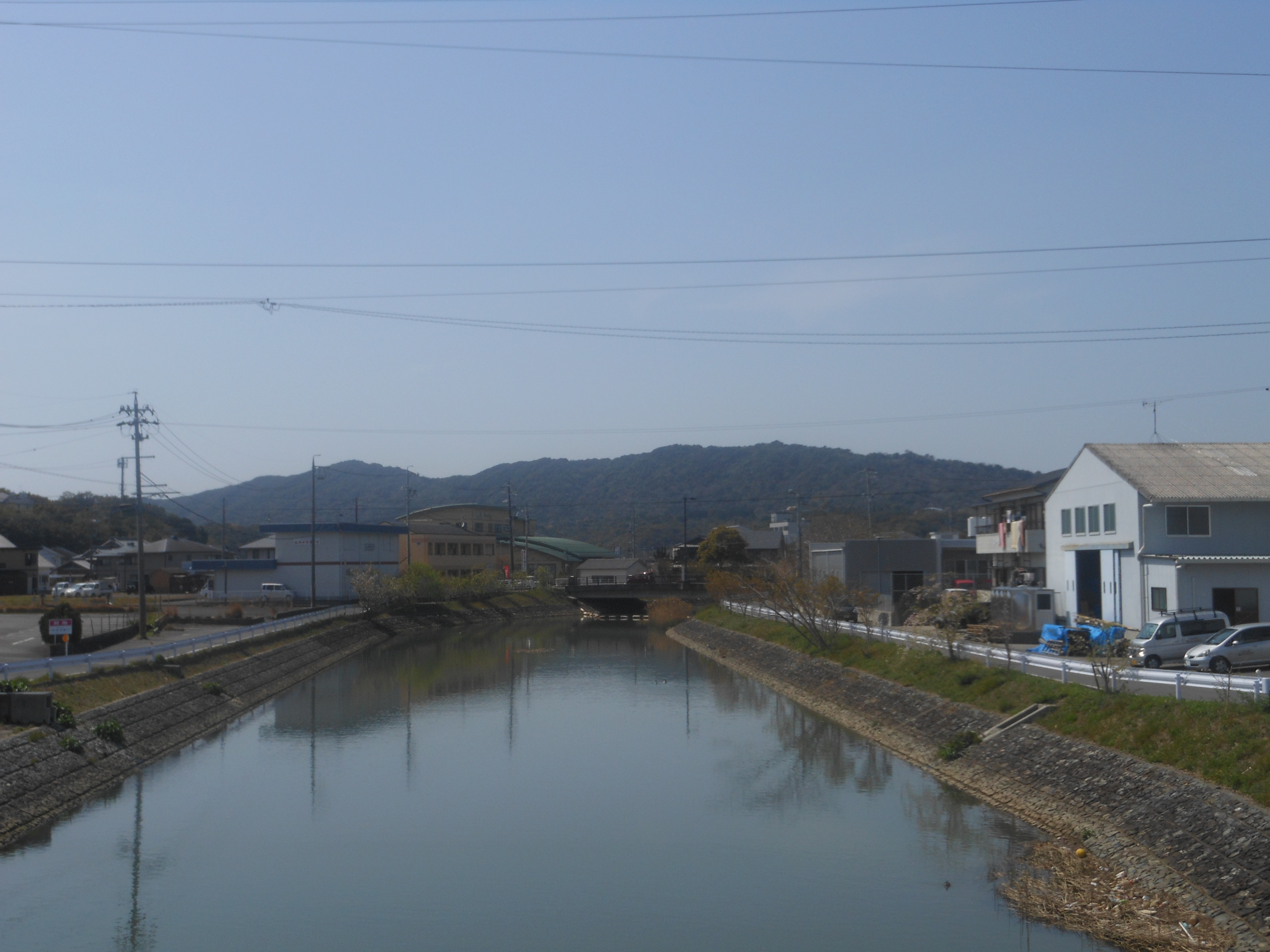 This is the photo of River Mae and Mount Yoko in Agocho-Ugata, Shima, Mie, Japan.